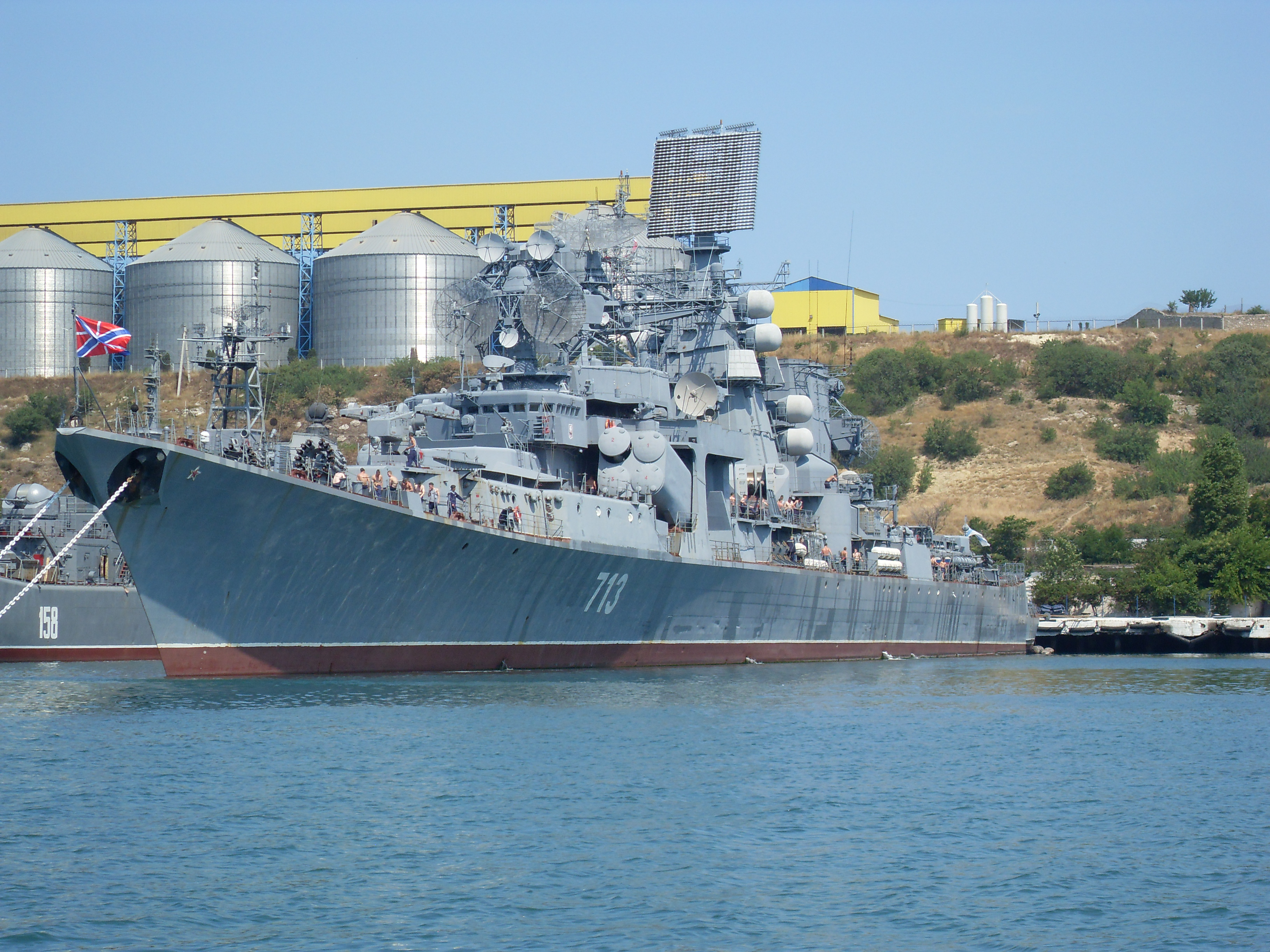 Large ASW Destroyer Kerch (Kara class).